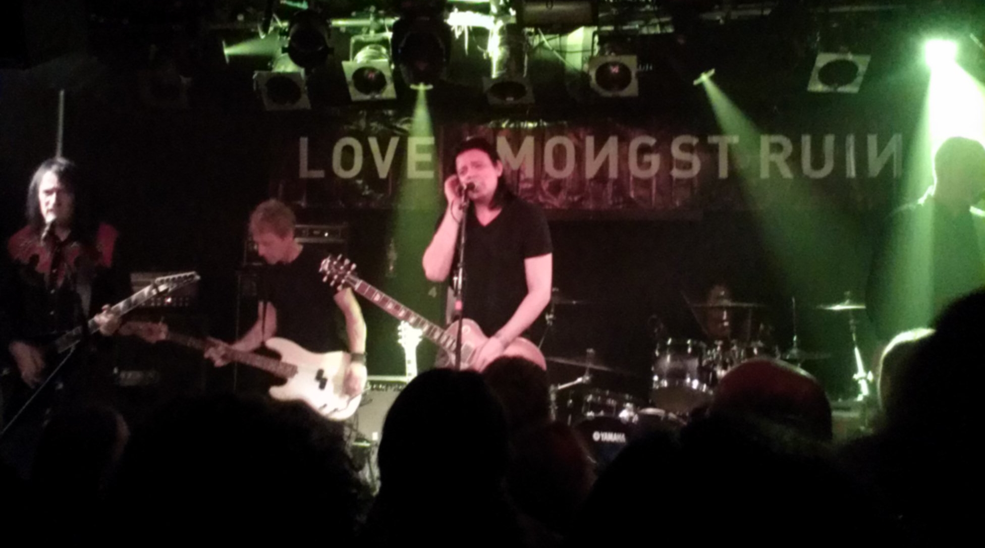 Love Amongst Ruin live at the Barfly